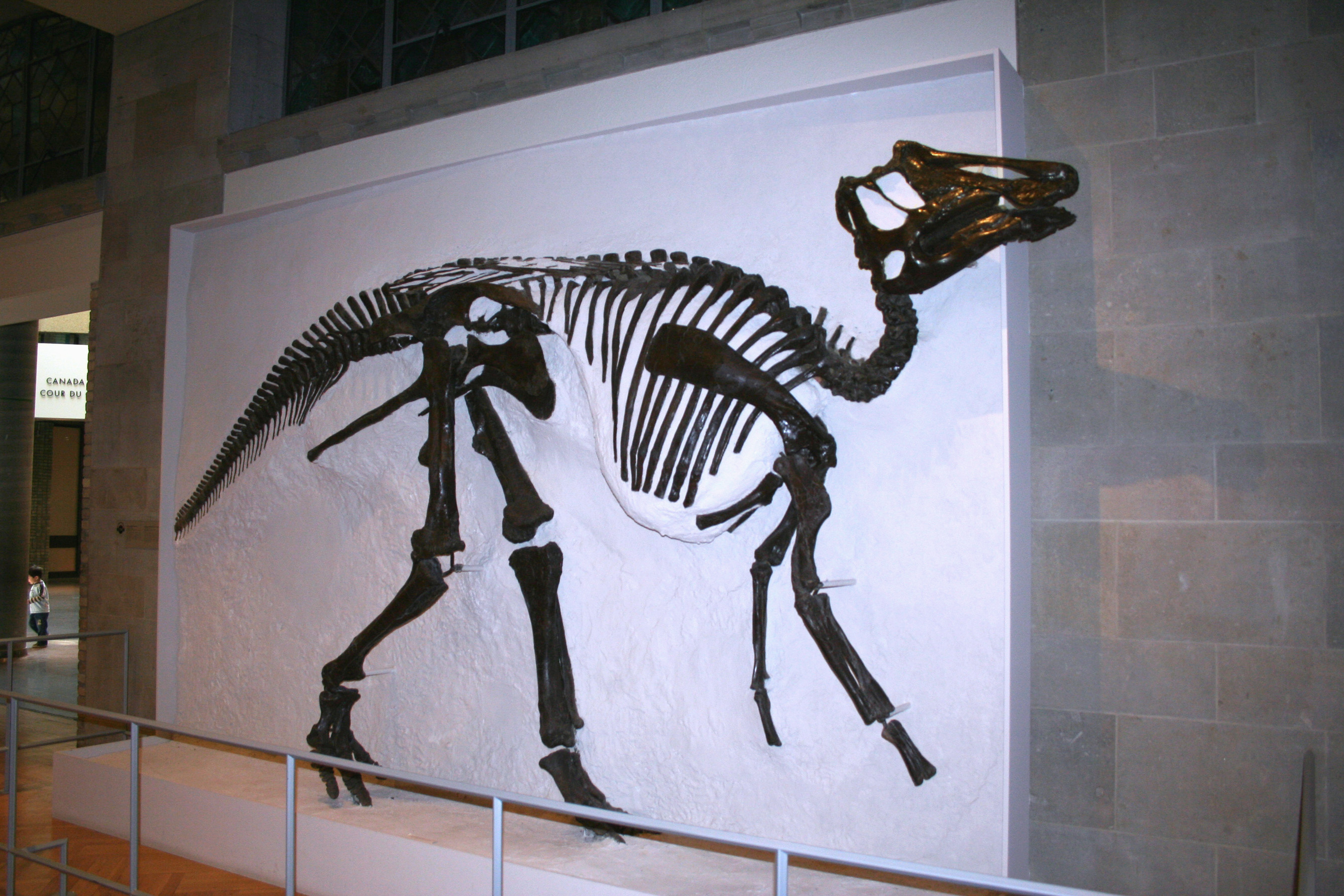 The ROM has the largest collection of dinosaur fossils in North America.